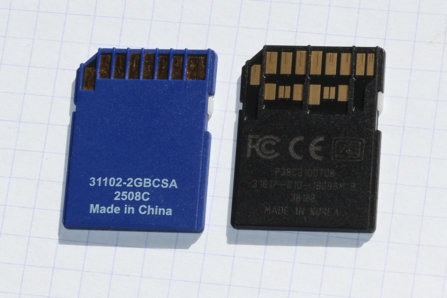 SD cards. On left with classic connector, on right with new UHS-II connector